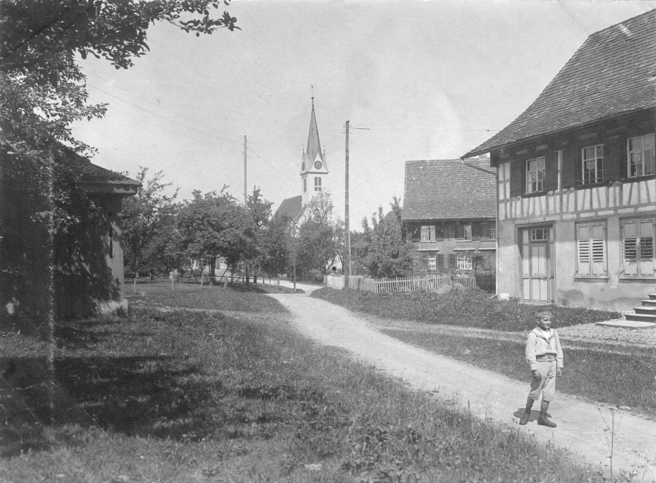 Street view in Schönholzerswilen TG (Switzerland) c 1910. The protestant church is visible in the background